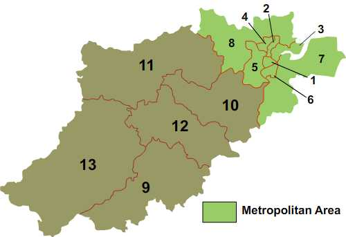 county-level divisions of Hangzhou in Zhejiang province, China